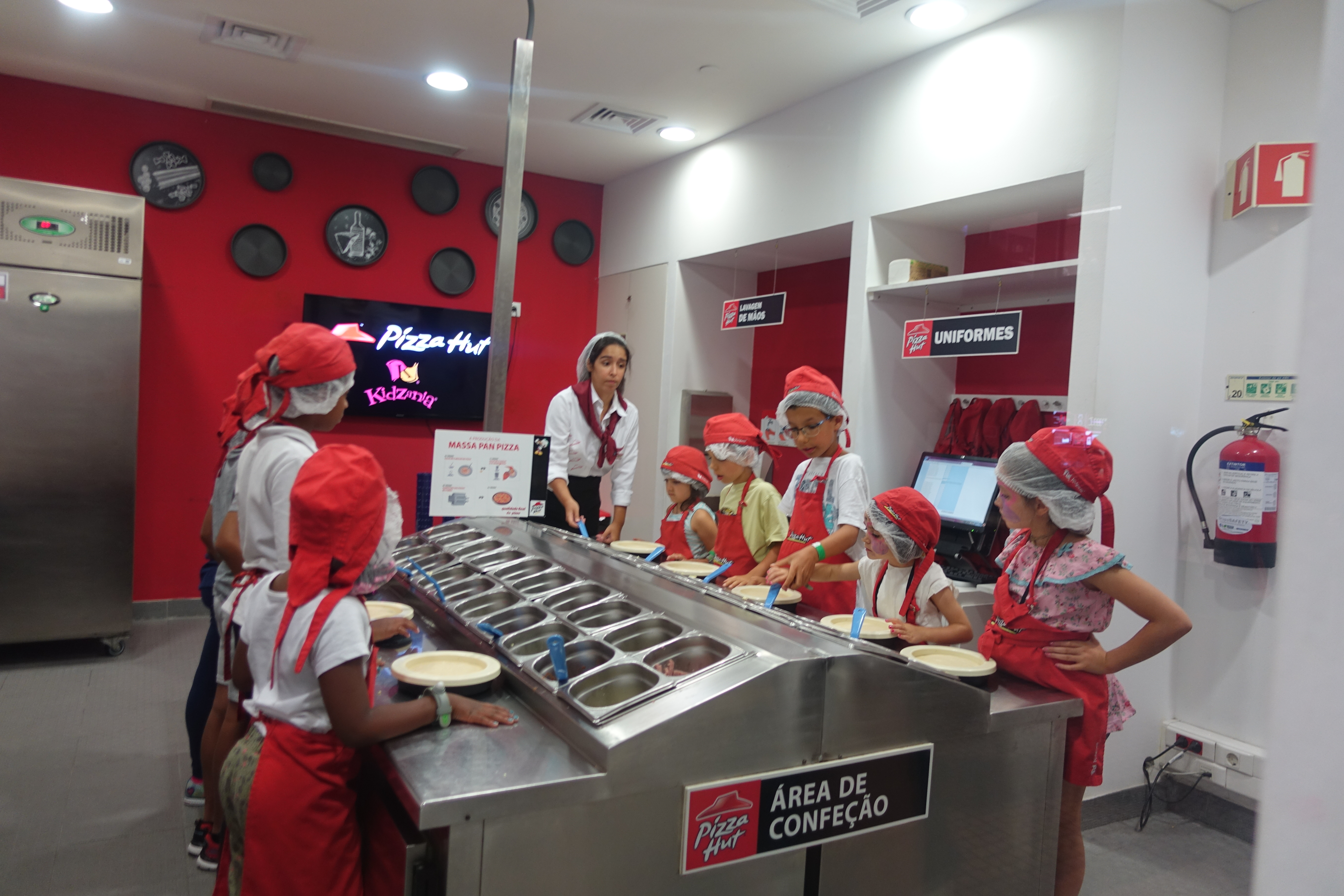 Kidzania (Lisbon) Portugal.